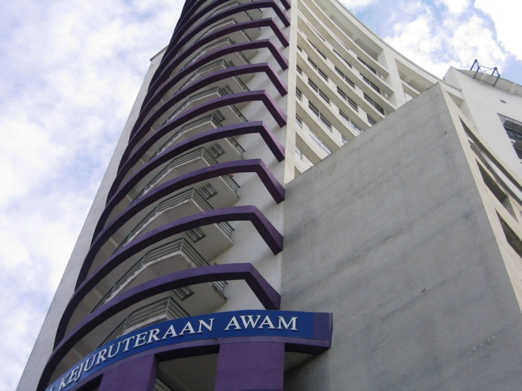 Twin Tower Fka UiTM